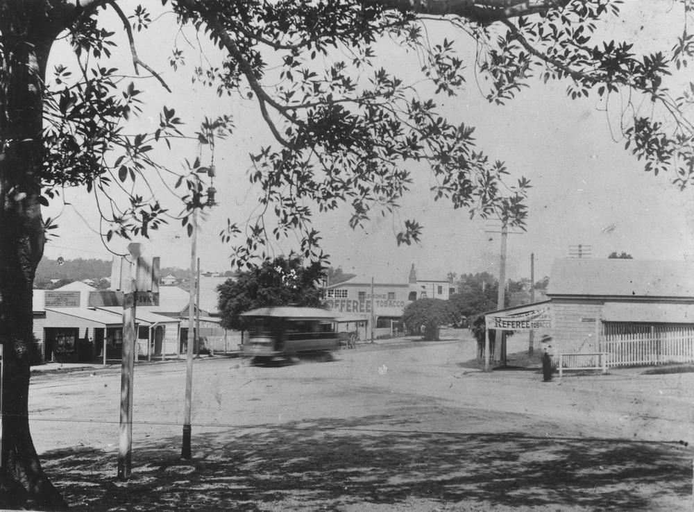 Scene at the junction of Ipswich and Annerley Roads, Annerley, ca. 1915. It taken from Annerley Road looking down (south) towards Ipswich Road (which has trams). Brisbane CBD is the left (NNE) on Ipswich Road and Ipswich is to the right (SSW).